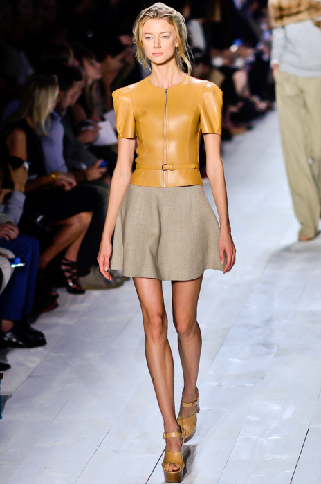 A model walks the runway at the Michael Kors Spring/Summer 2014 show at New York Fashion Week, September 2013.